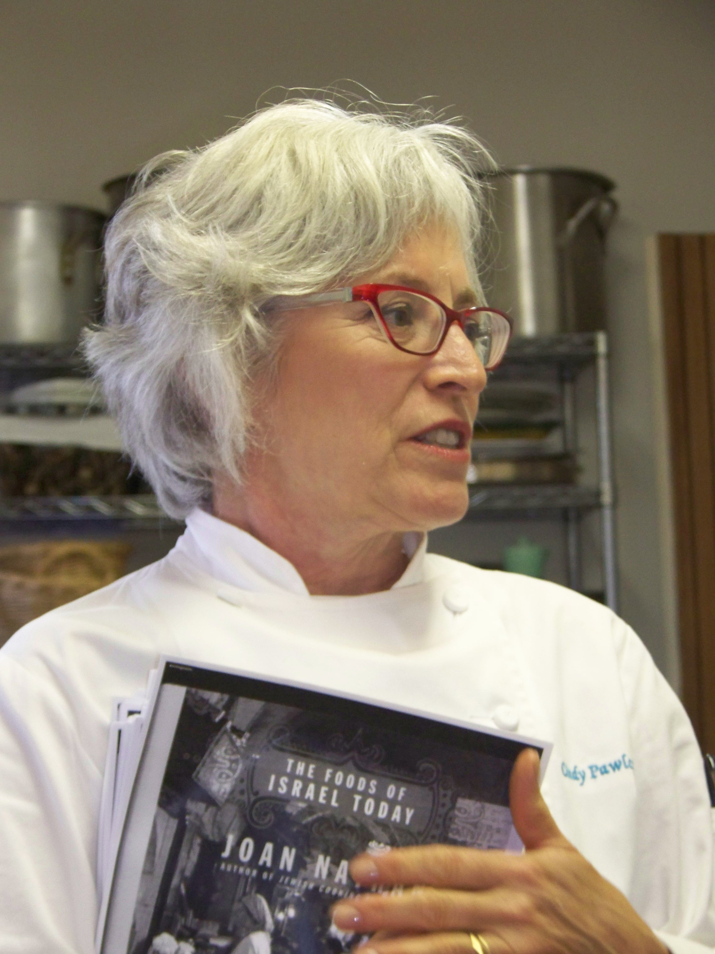 A photo of chef Cindy Pawlcyn, taken at Congregation Beth Sholom in Napa, California